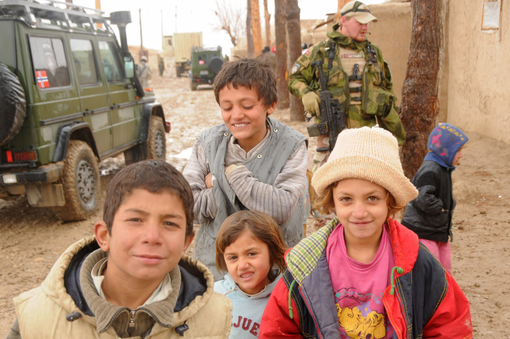 Children stand in front of an International Security Assistance Force soldier with the Norwegian Operational Mentor and Liaison Team in Mazar-e-Sharif, Feb. 4. The Norwegians are helping ISAF in assisting the Afghan government in extending and exercising its authority and influence across the country, creating the conditions for stabilization and reconstruction.